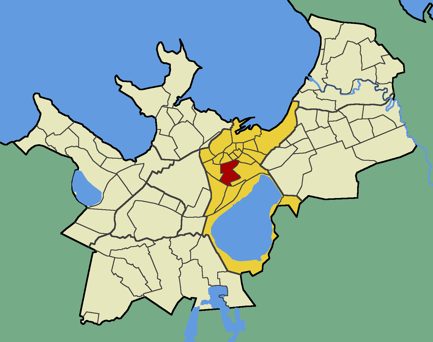 Map of Tallinn (Estonia) with borders of the quarters, Kesklinn district and Veerenni quarter emphasised